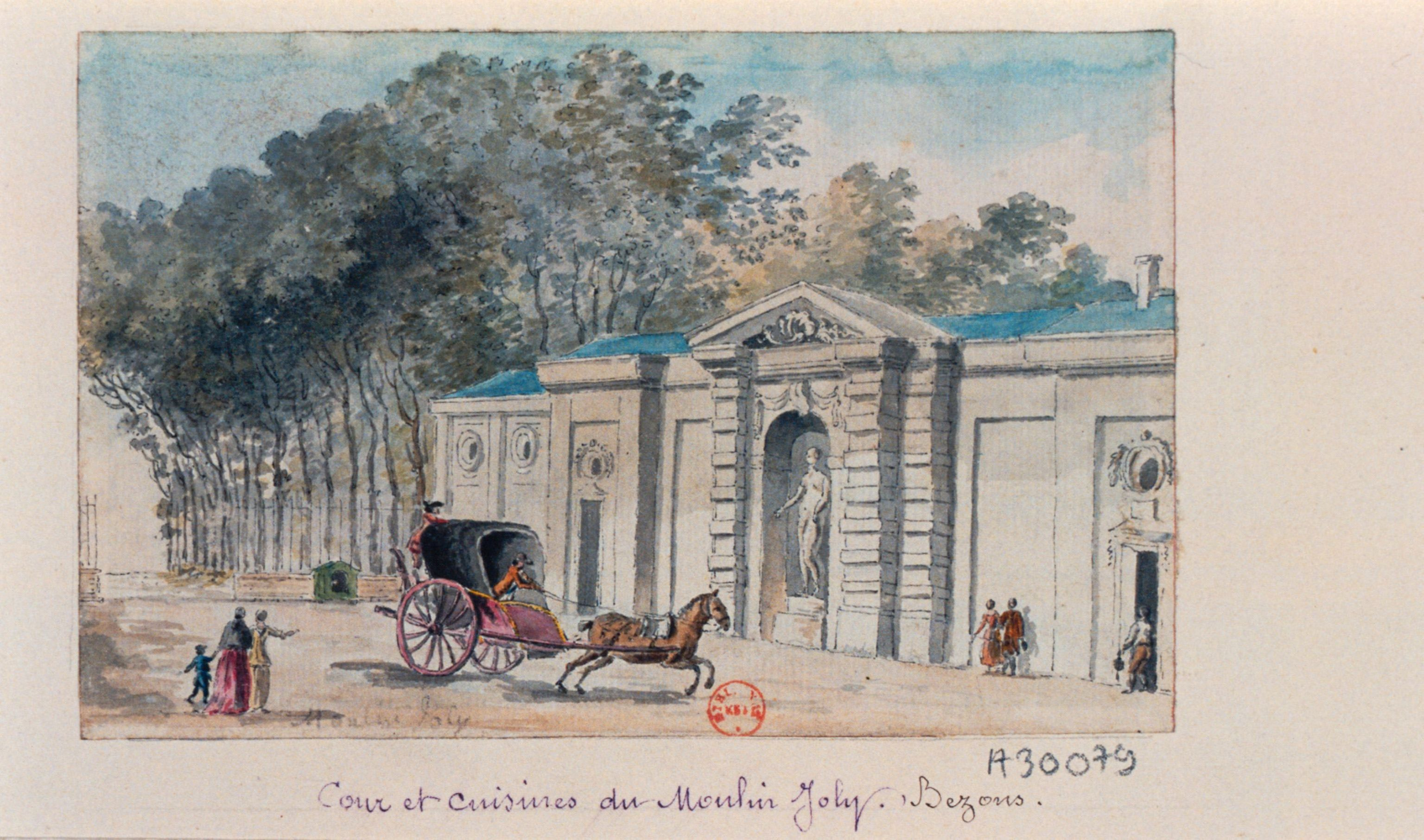 "Cour et cuisines du Moulin Joly" ("Courtyard and Kitchens at the Moulin Joly") by French writer and artist Claude-Henri-Watelet. Pen drawing, ink and water-colour. Bibliothèque Nationale de France, Paris.